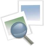 This PNG was made from Image:Gthumb.svg